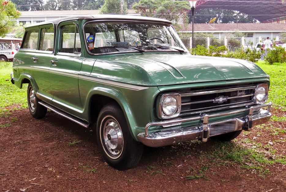 Chevrolet Veraneio in a nice shade of green